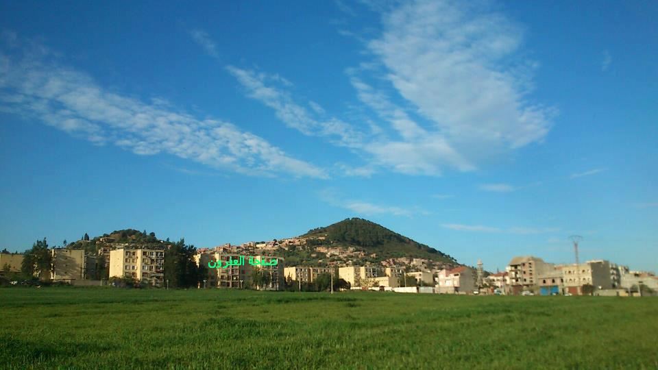 مدينة العفرون في فصل الربيع